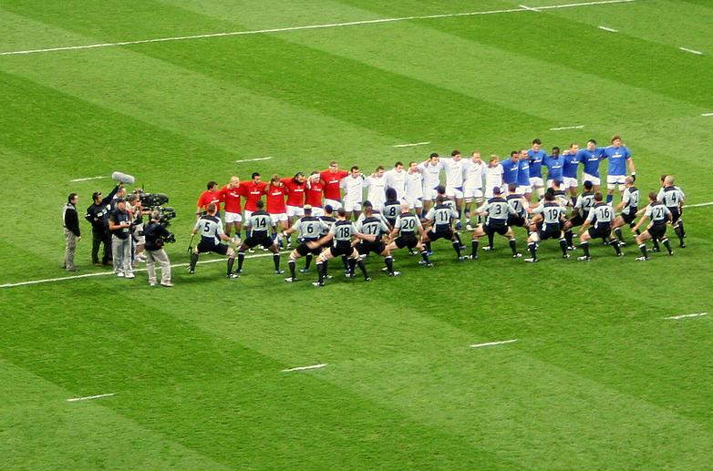 rugby union : haka Ka mate... between France and the All Blacks. (** Alternative Title: "What the hell am I going to do with a 5ft New Zealand flag now?")